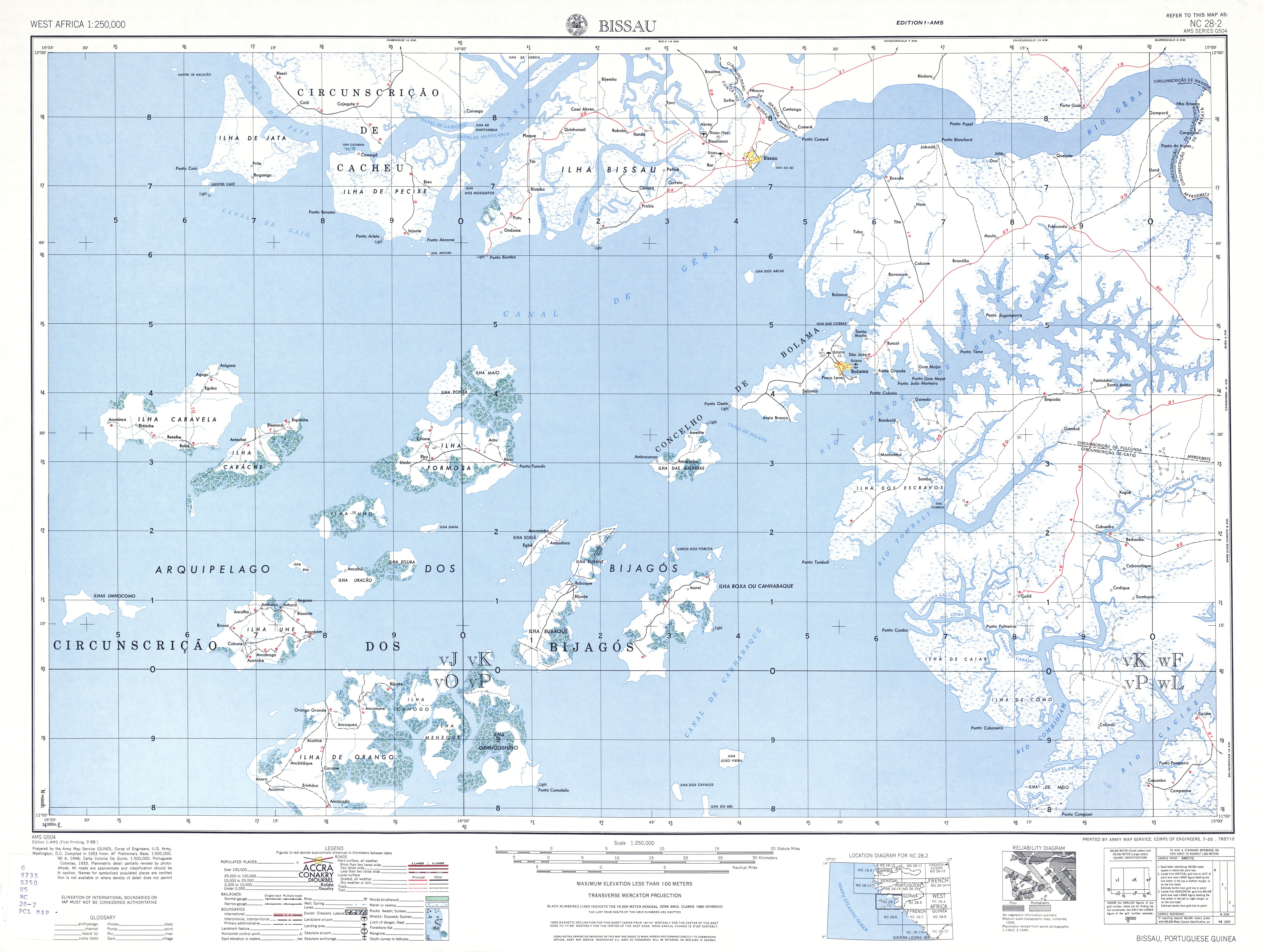 most of Bissagos Archipelago, Guinea-Bissau, West Africa